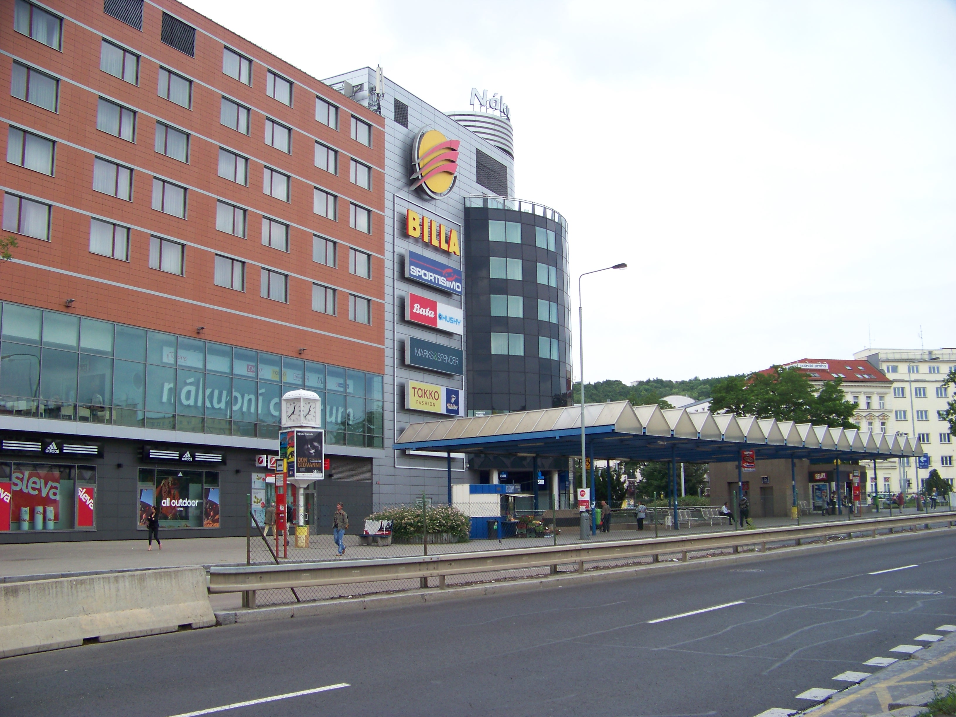 Prague-Vysočany, the Czech Republic. Freyova street, Vysočanská station, Fénix shopping centre.